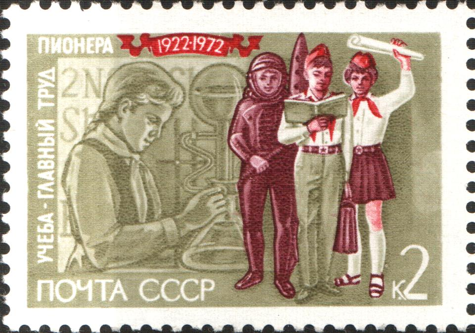 USSR stamp